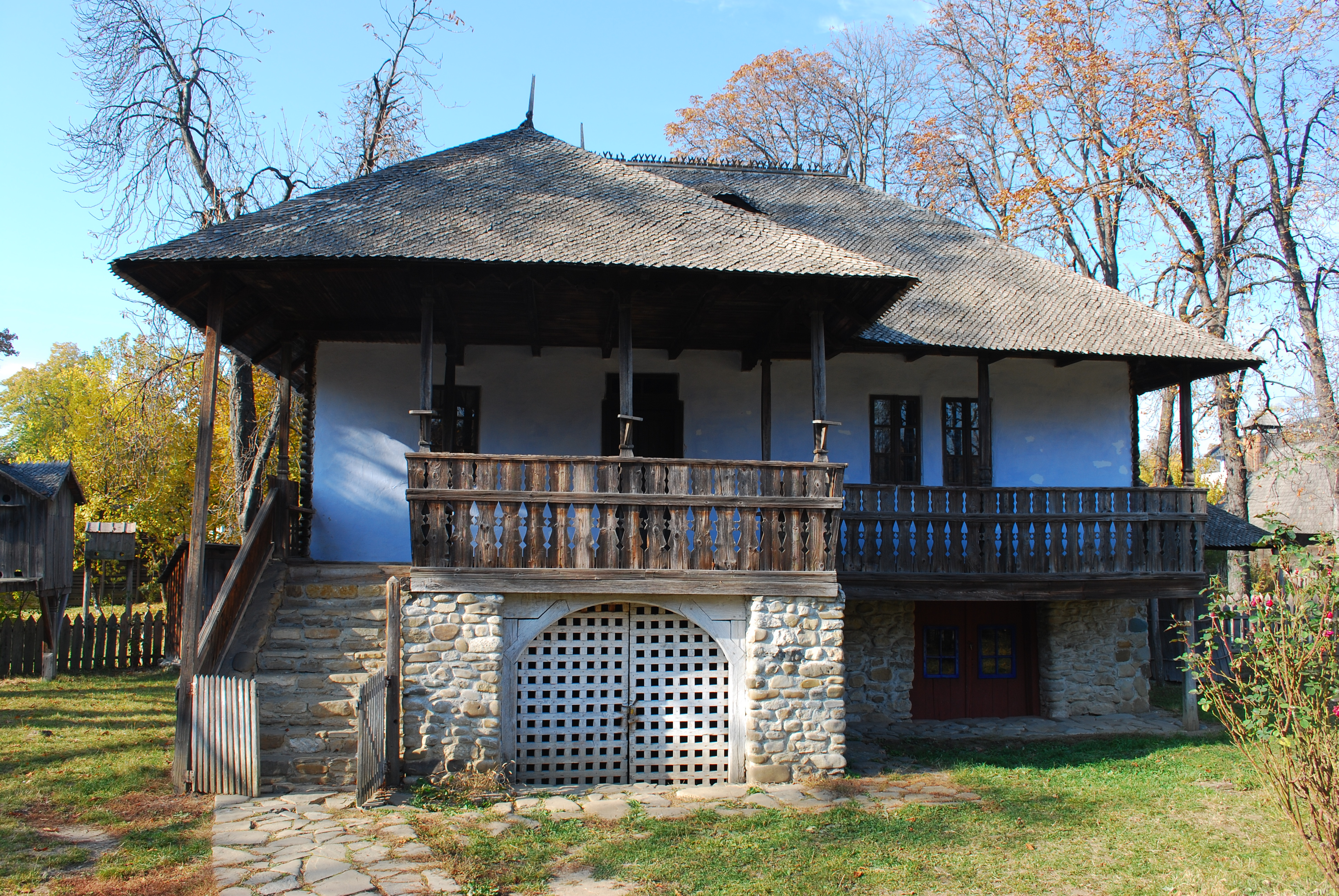 Homestead from Chiojdu, Buzău County in the Village Museum in Bucharest, Romania